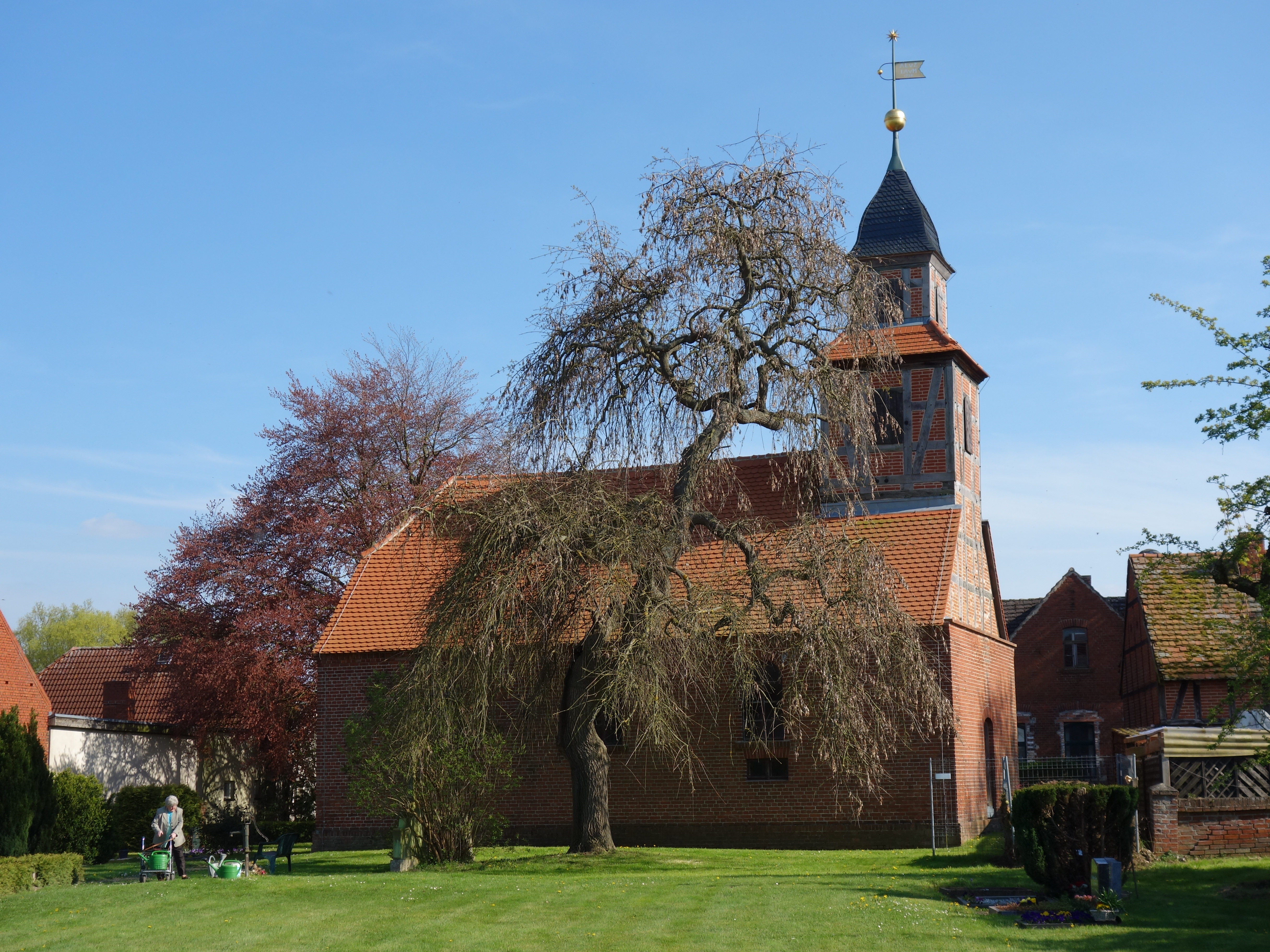 North-north-western view of church in Wassersuppe, Seeblick municipality, Havelland district, Brandenburg state, Germany.